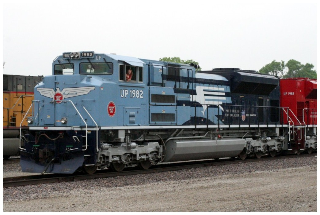 Union Pacific Railroad 1982, EMD SD70ACe [1]